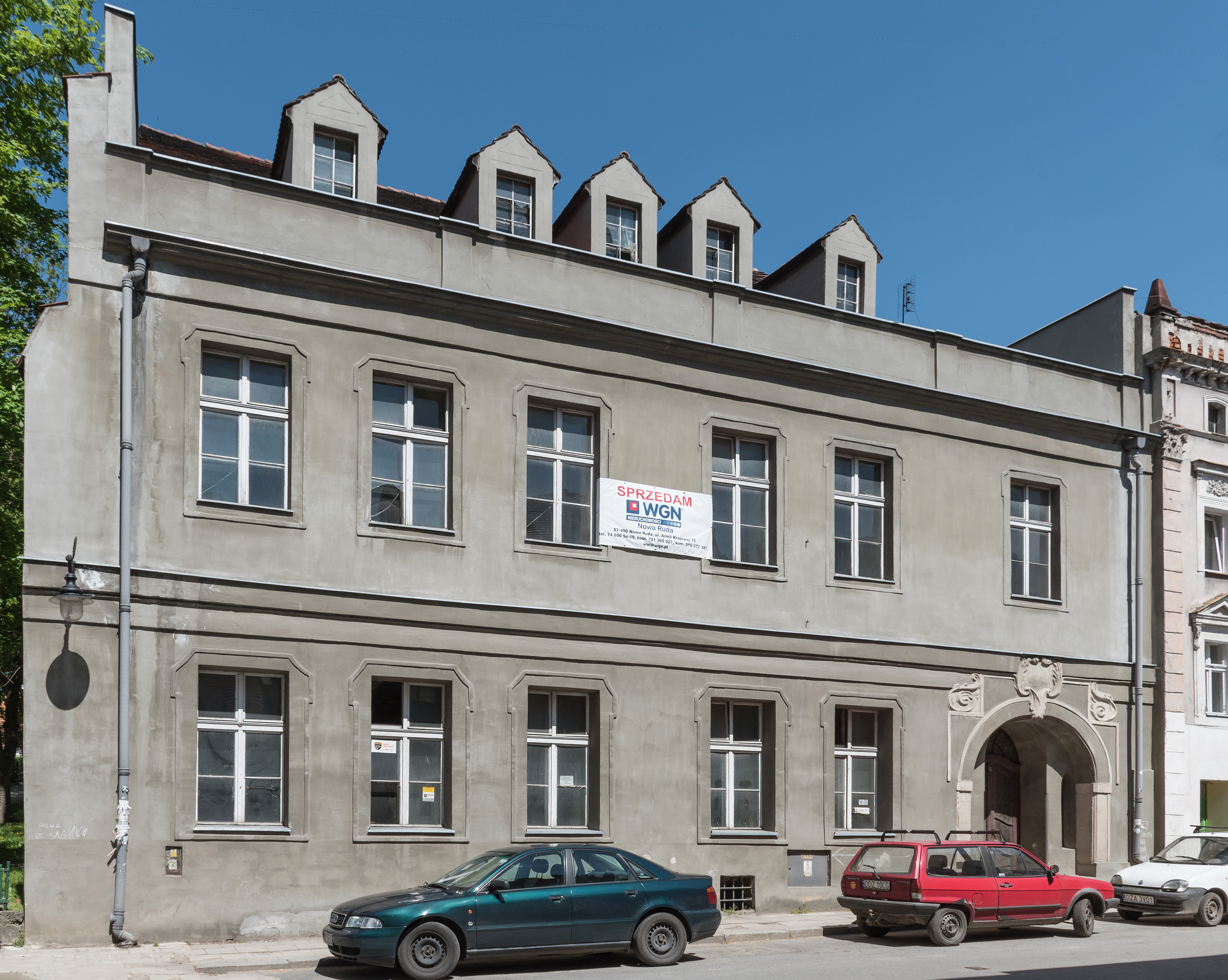 31 Główna Street in Bardo